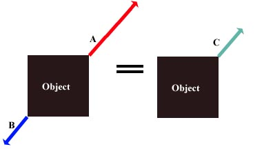 Diagram created by me for use in Net force article